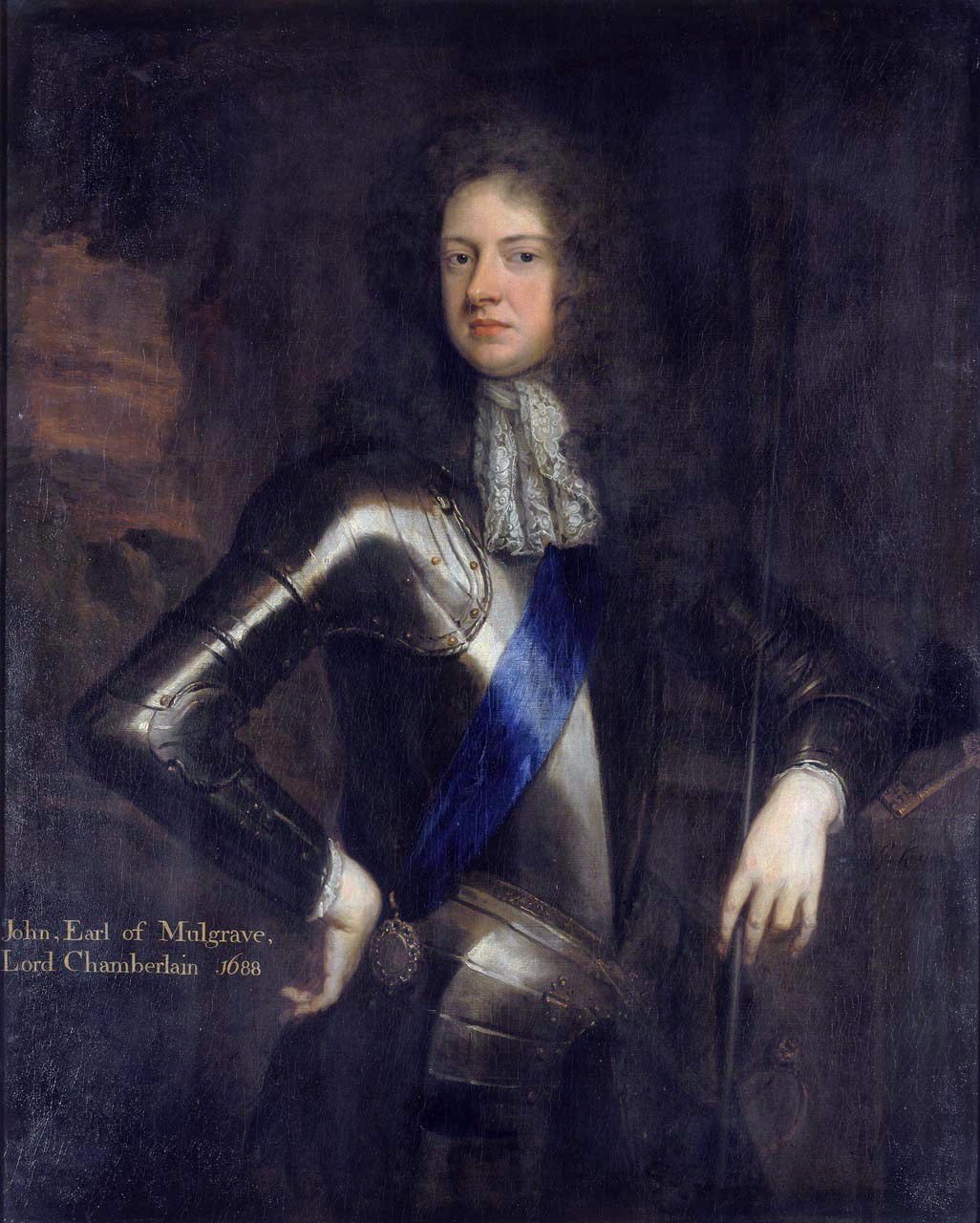 John Sheffield, 1st Duke of Buckingham and Normanby (1648-1721)